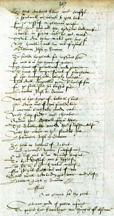 A page from the Bannatyne Manuscript, compiled by George Bannatyne in the sixteenth Century, now held by the National Library of Scotland.